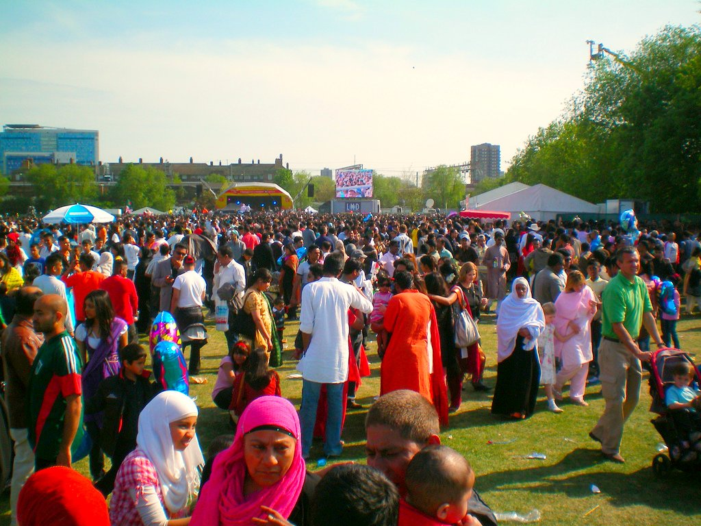 The crowds at the Mela.